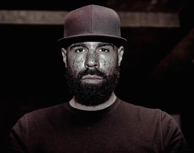 This is a photo taken by Jason "DaHeala" Quenneville of himself. Daheala uses this profile picture on Universal Music Publishing Group's artist profile website.